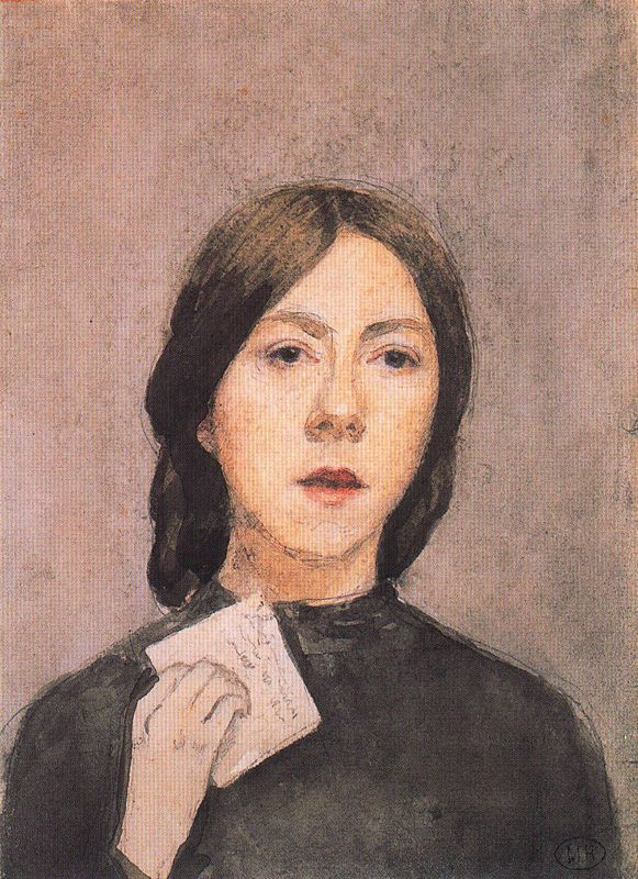 Self Portrait